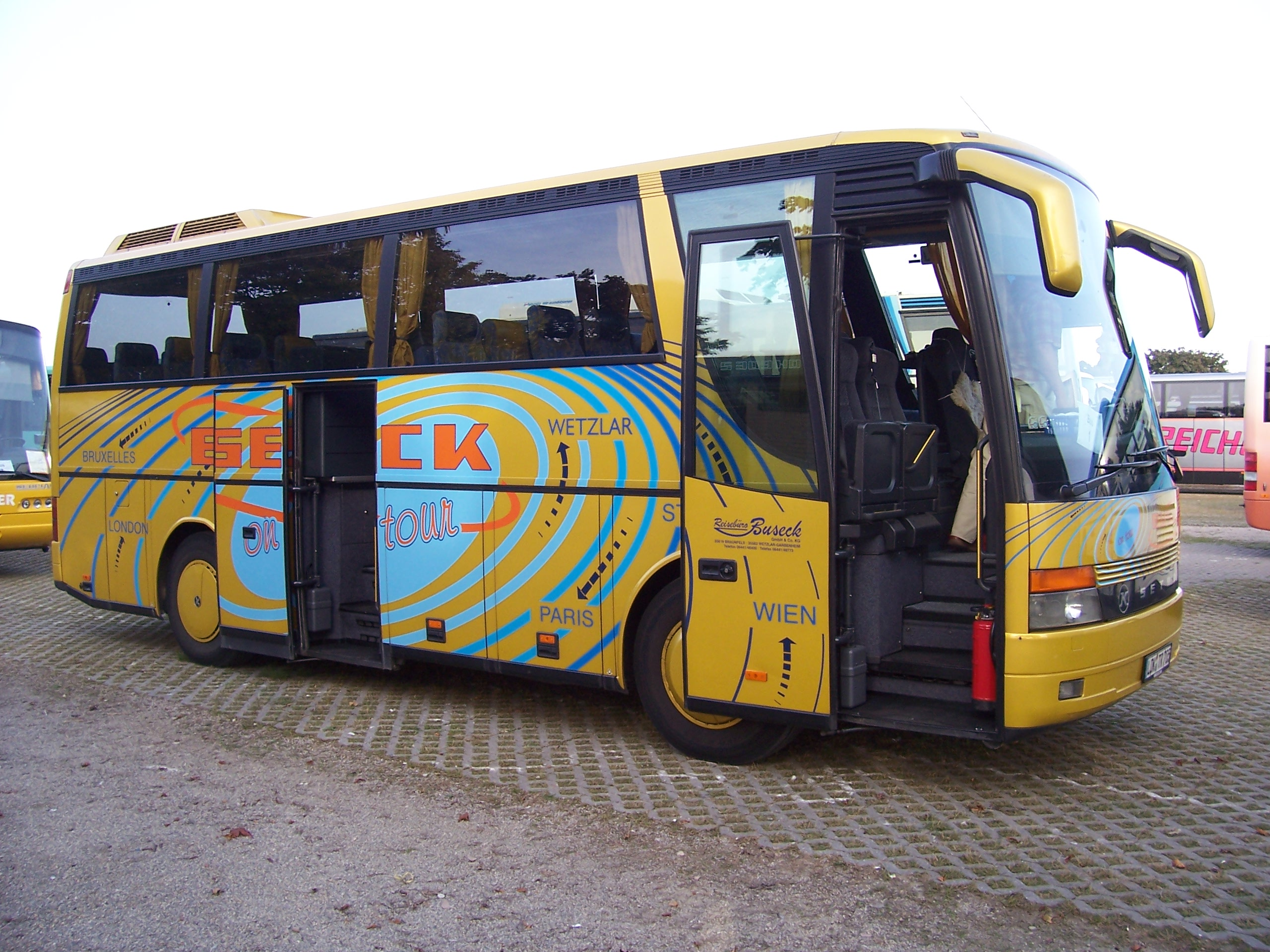 Setra S 309 HD coach (reg. LDK-TR 705) in Mannheim, Germany.